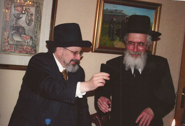 Rabbi Ahron Daum with Rabbi I.Z. Pollak